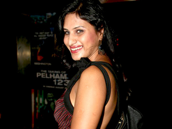 Nandini Jumani (Jumani Neog) is an Assamese actress and model based in Mumbai.